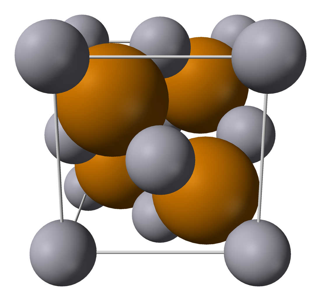 Space-filling model of the unit cell of mercury telluride, HgTe